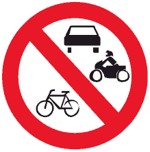 Diagram of road signs of Luxembourg